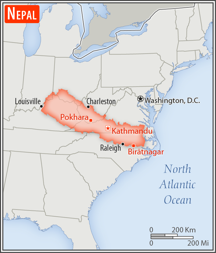 Comparison of the areas of two country. The area of Nepal with biggest cities (red) overlay the area of the United States of America (gray background).